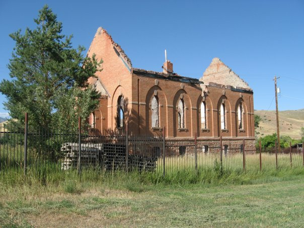 Photograph of Porterville Church built in 1898 and destroyed by fire in 2000.